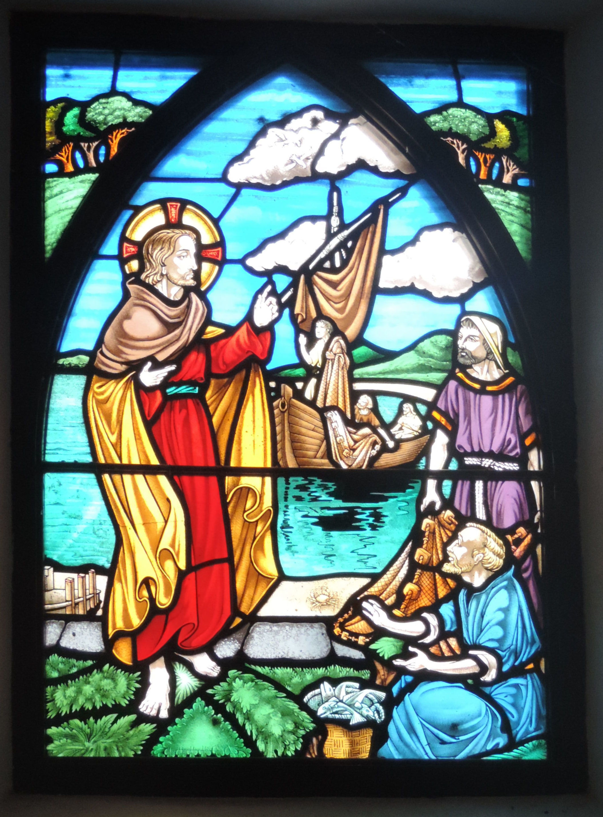 A staind-glass window in St. Tugual's Chapel, Herm, in the Channel Islands.